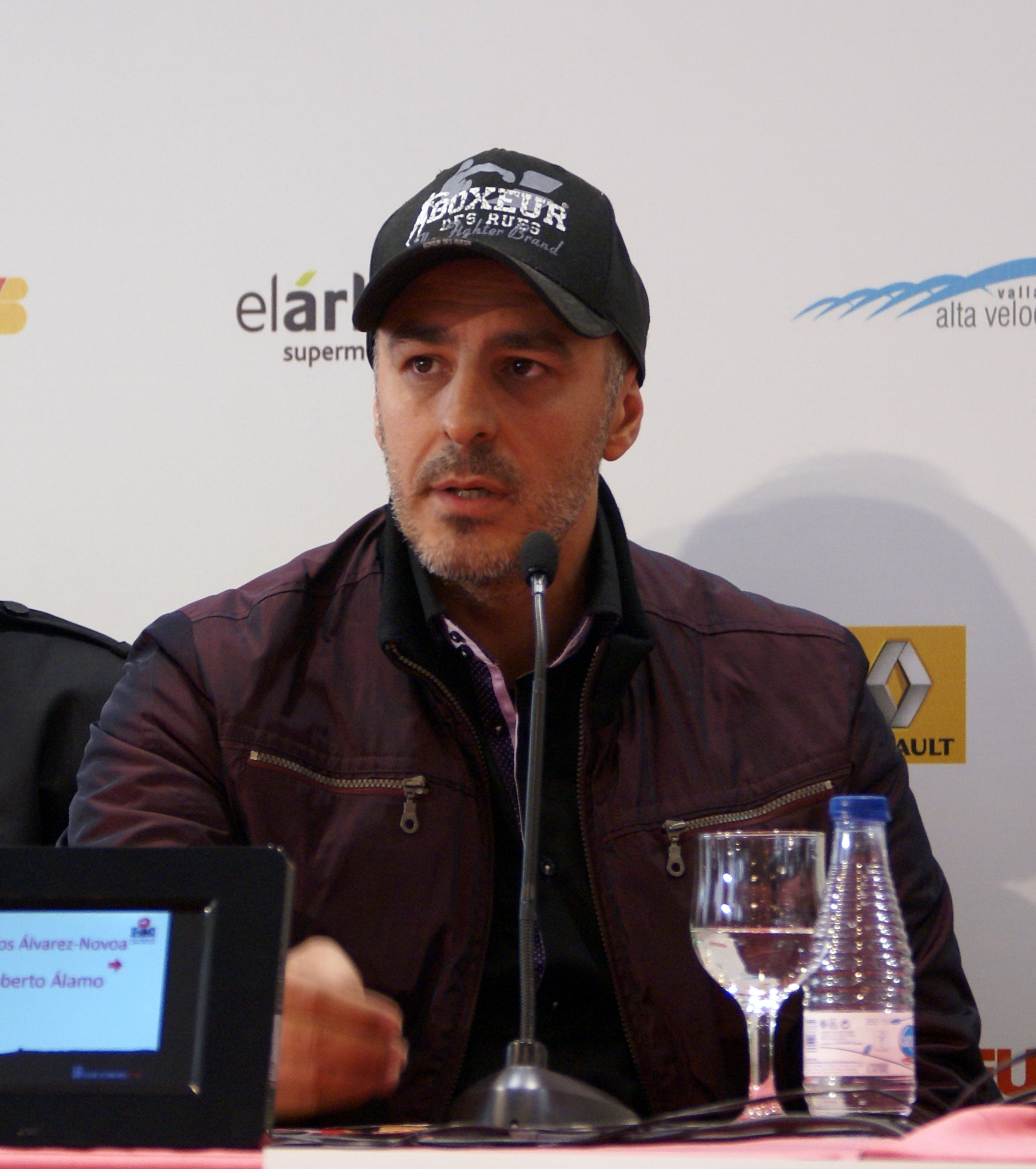 Roberto Álamo, Spanish actor.